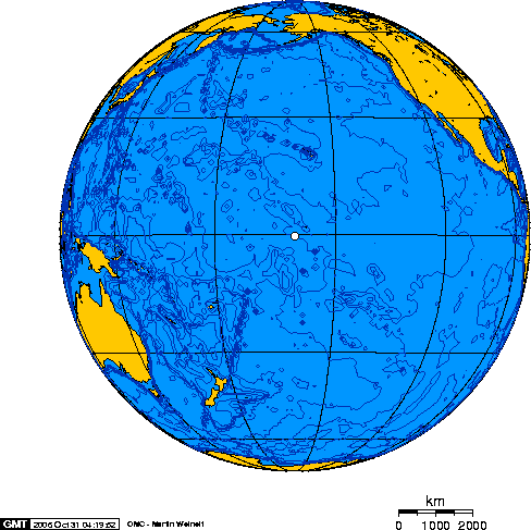 Orthographic projection over Jarvis Island from: originally created by Geo Swan, uploaded 2006-10-31T03:34:38 copyright info copied.